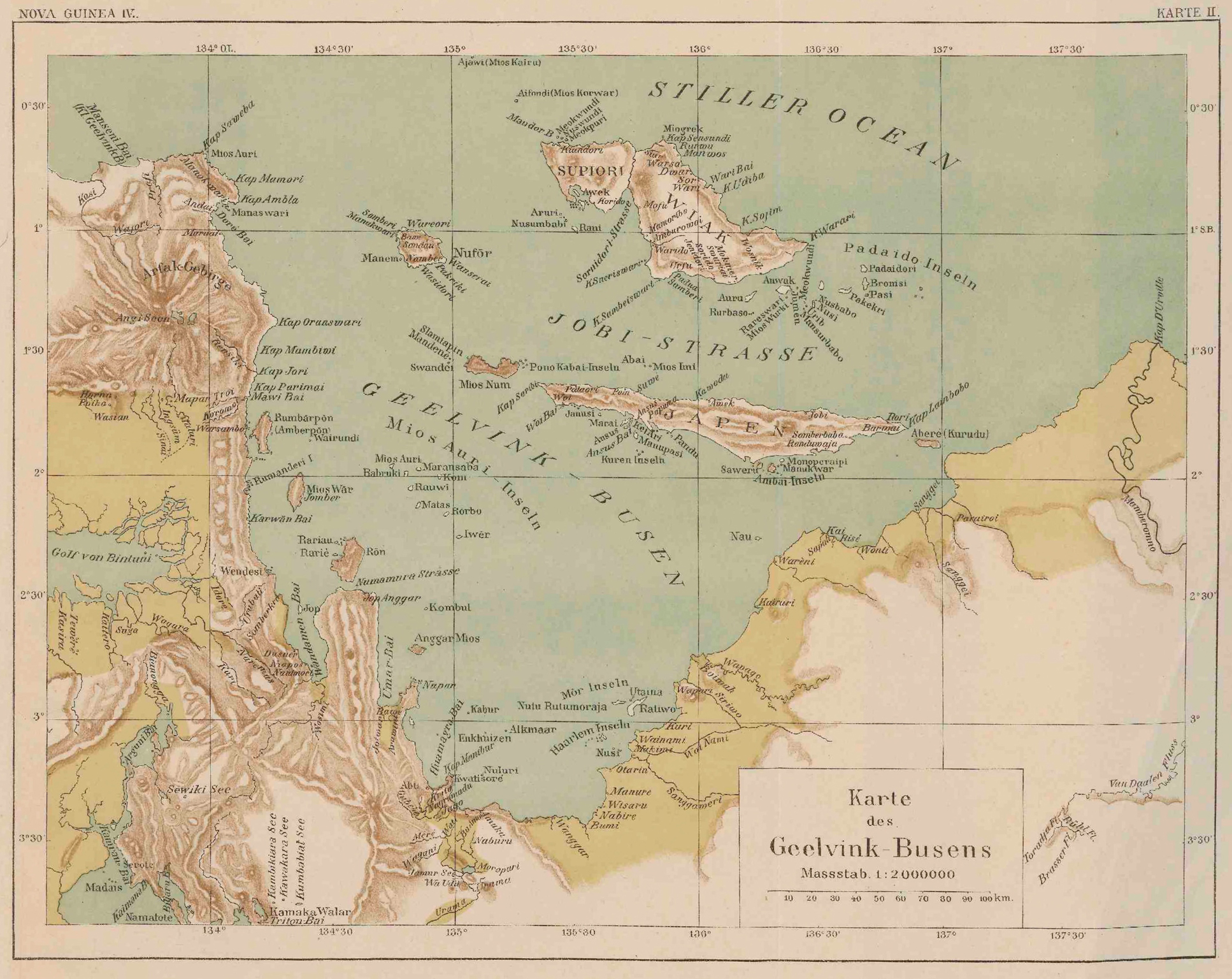 Map of Cenderawasih Bay from Wichmann, Carl Ernst Arthur (1917) Nova Guinea : résultats de l'expédition scientifique néerlandaise à la Nouvelle-Guinée en 1903. Vol. IV: Bericht über einde im Jahre 1903 ausgeführte Reise nach Neu-Guinea, Leiden: Brill